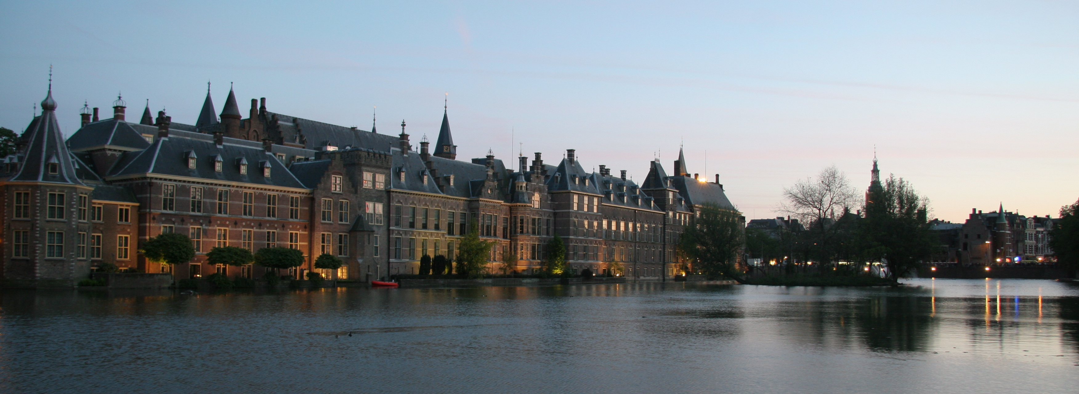 I took this picture myself and I release it for all use everywhere in the world. prasenberg 08:55, 30 April 2007 (UTC)